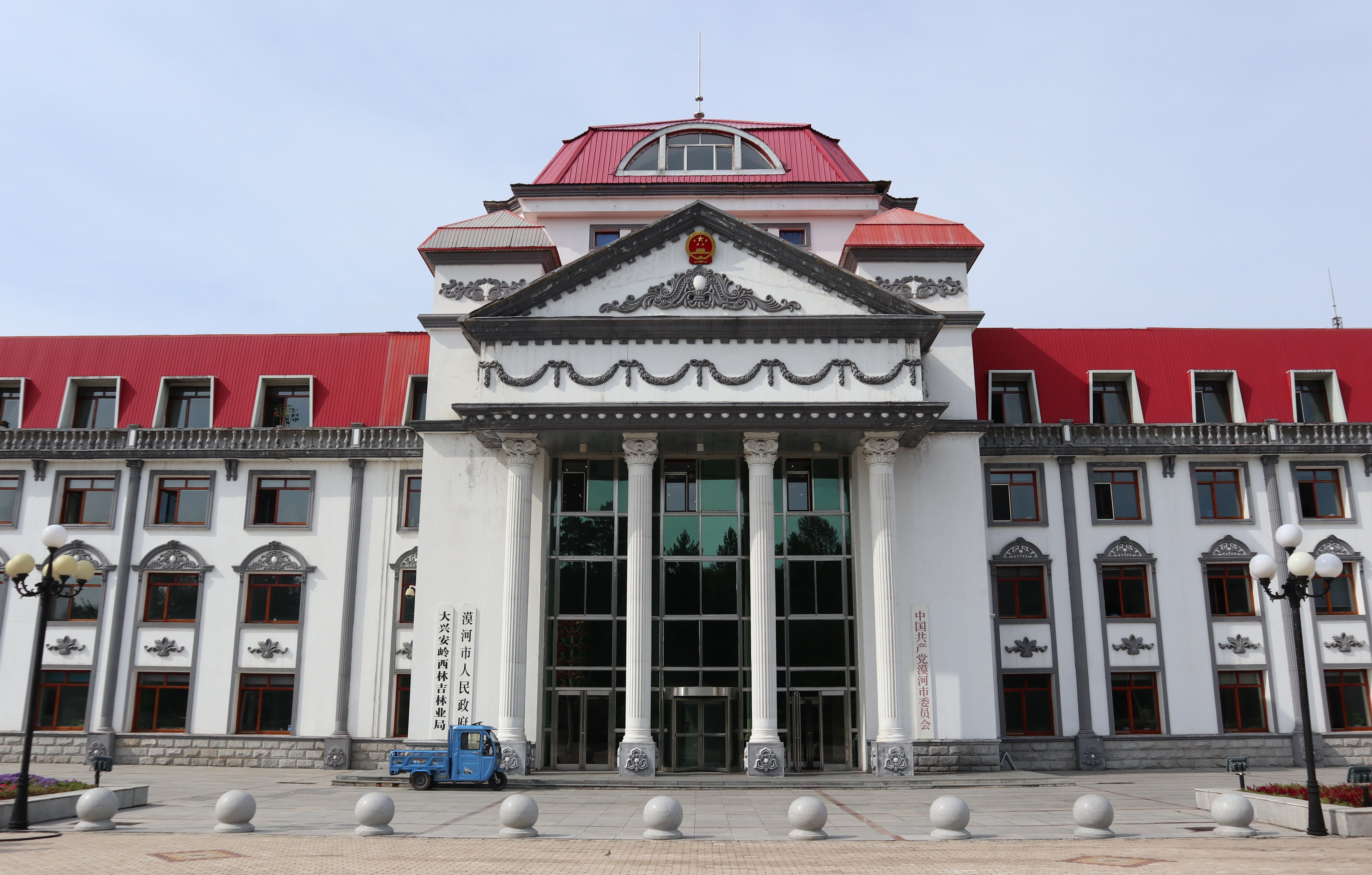 Government building of Mohe.